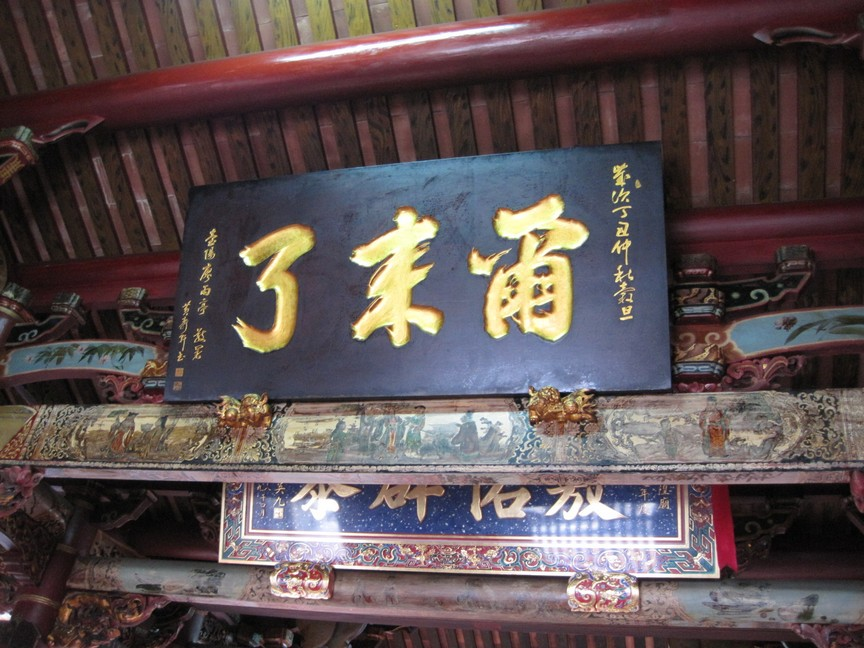 A historical plaque in Taiwan fu(臺灣府)city god(城隍)temple.中文（台灣）: 臺灣府城隍廟的「爾來了」匾。